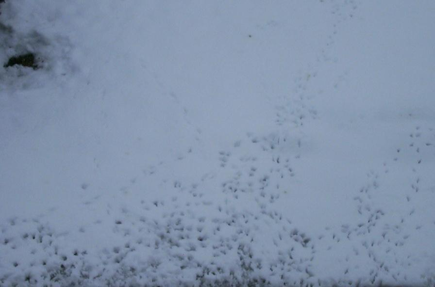 Bird tracks in snow at Fourageerplaats, The Netherlands, March 2005